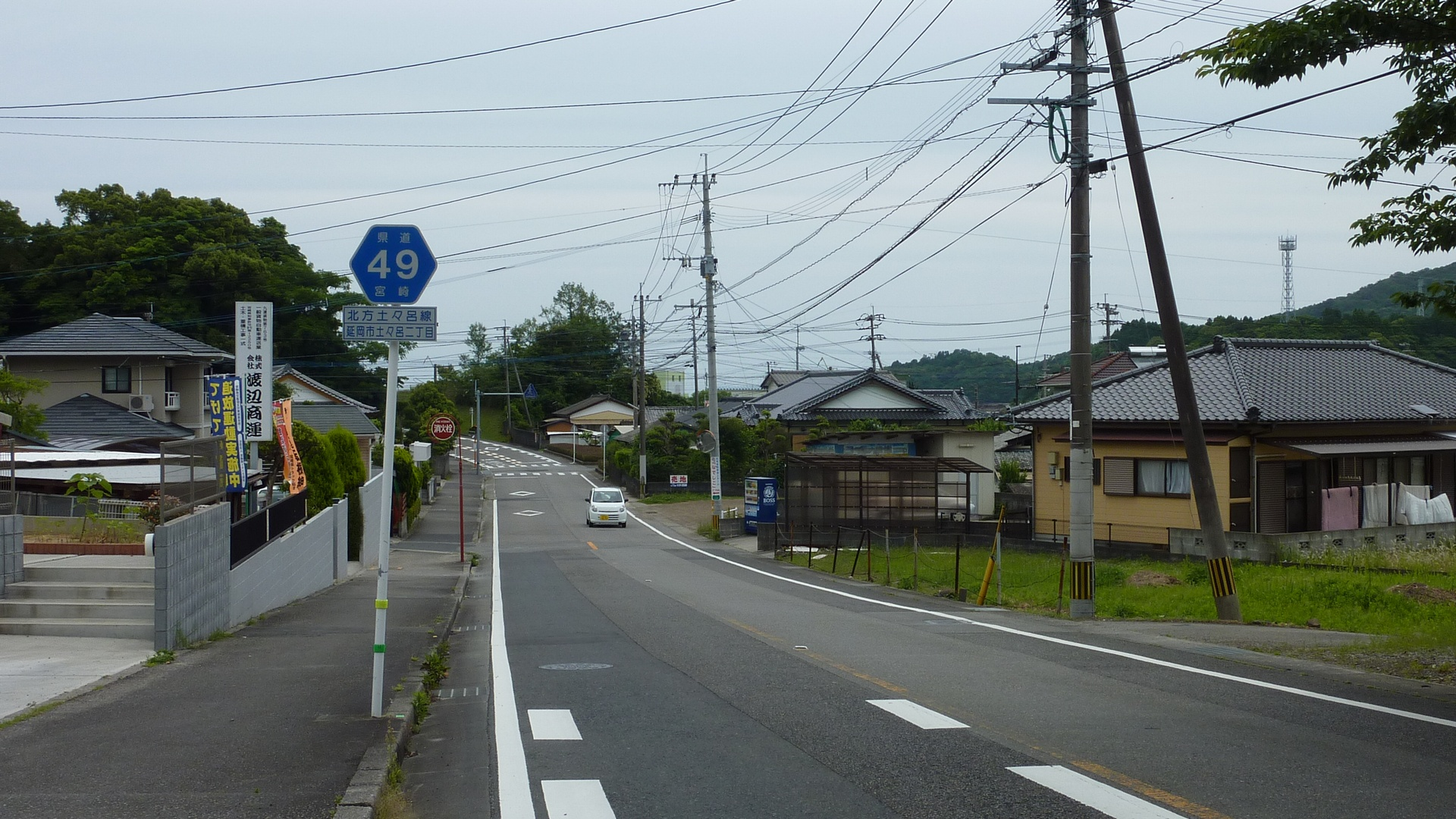 Miyazaki Prefectural Road No.49 Kitakata-Totoro Line (Totoro 2-chome, Nobeoka City, Miyazaki Prefecture, Japan)